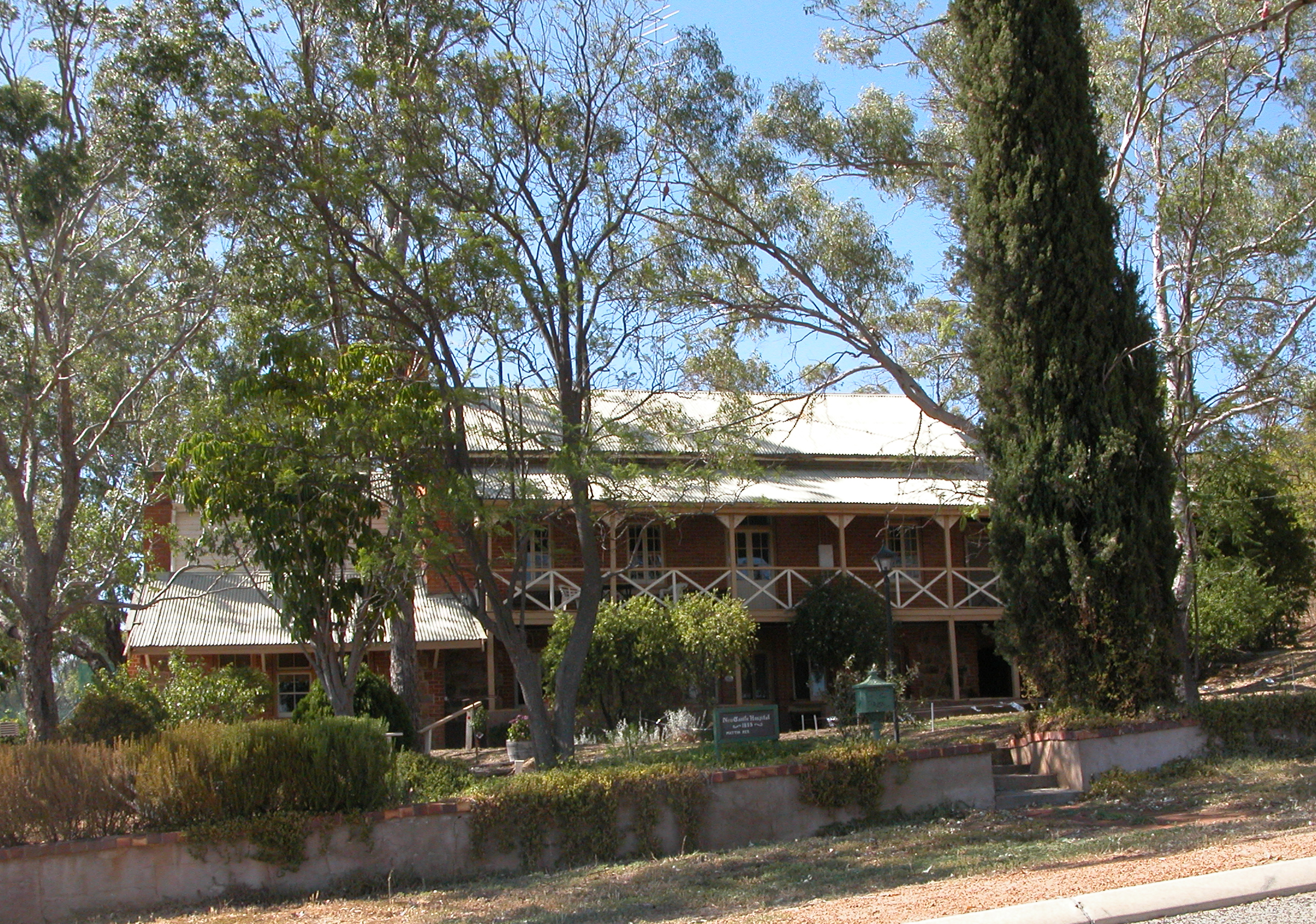 Old Newcastle Hospital Cnr Henry and Duke Street Toodyay